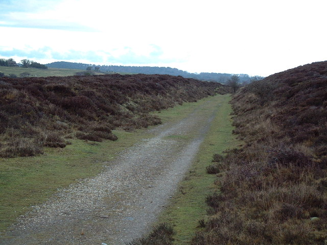 The track of the former Middlebere Tramway used for transporting ball clay runs across Hartland Moor. At this point it runs through a slight cutting. For more information see the Wikipedia article Middlebere Tramway.